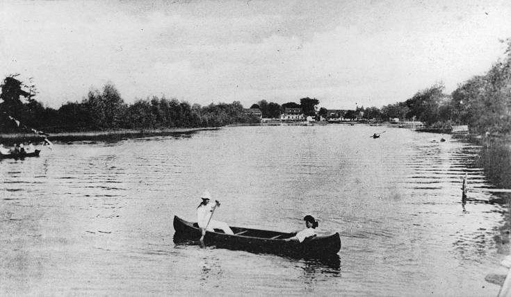 Print, Chateauguay River, Chateauguay, QC, about 1910, Anonymous, Ink on paper mounted on card - Collotype - 8 x 13 cm